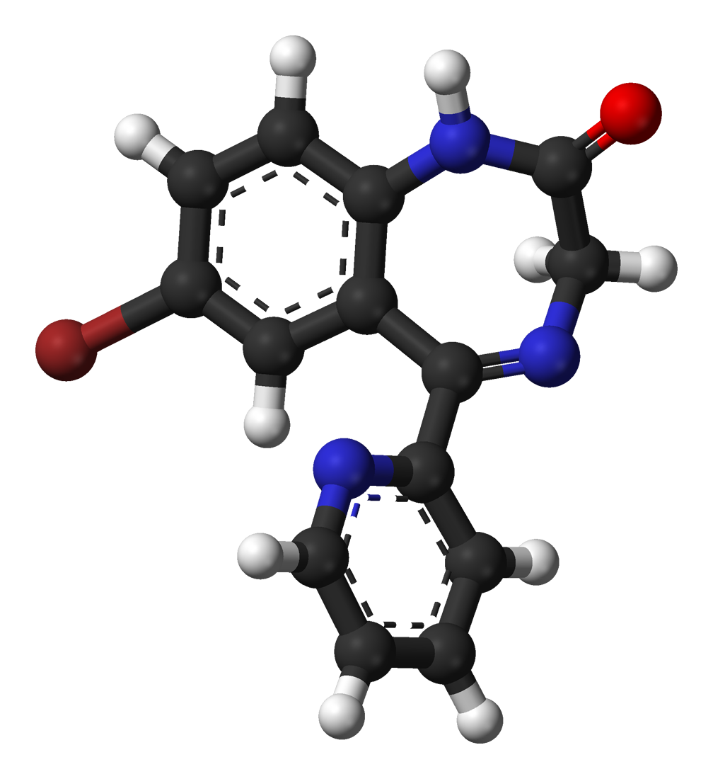 Ball-and-stick model of the bromazepam molecule, C14H10BrN3O. X-ray crystallographic data from H. Butcher, T. A. Hamor and I. L. Martin (October 1983). "Structures of 7-bromo-1,3-dihydro-5-(2-pyridyl)-2H-1,4-benzodiazepin-2-one (bromazepam, C14H10BrN3O) and 5-(2-fluorophenyl)-1,3-dihydro-1-methyl-7-nitro-2H-1,4-benzodiazepin-2-one (flunitrazepam, C16H12FN3O3)". Acta Cryst. C39 (10): 1469-1472. Image generated in Accelrys DS Visualizer.